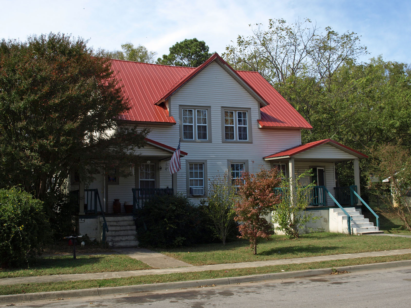 3312-3314 Alpine Street in Huntsville, Alabama, part of the Merrimack Mill Village Historic District.